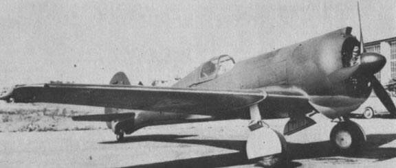 Original photo shot in 1940. Image found on